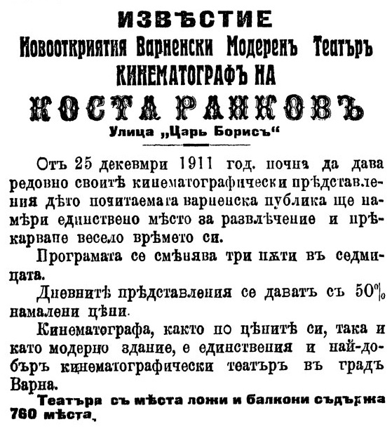 Kosta Rankov Add